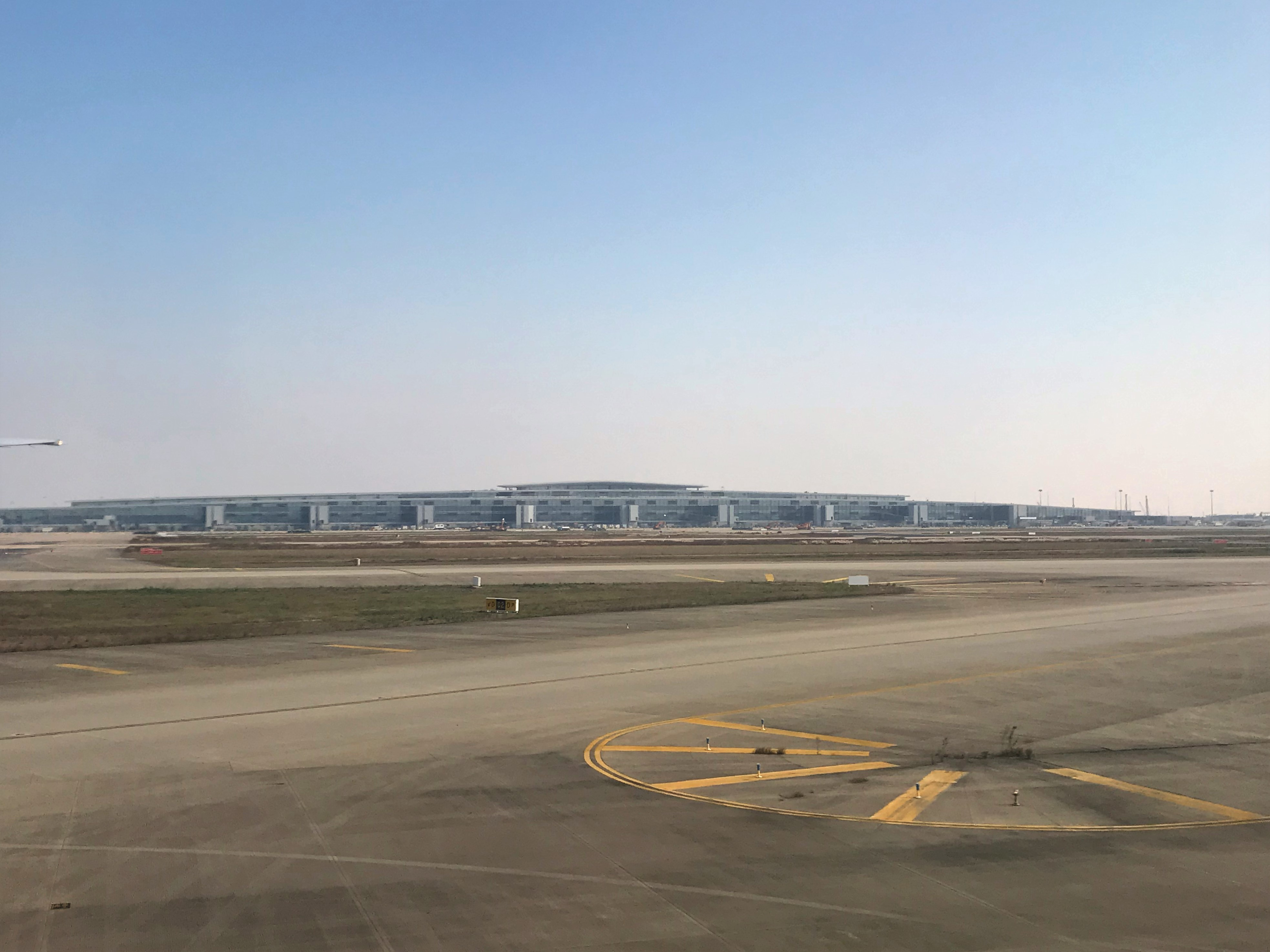 201812 Satellite Terminal of PVG